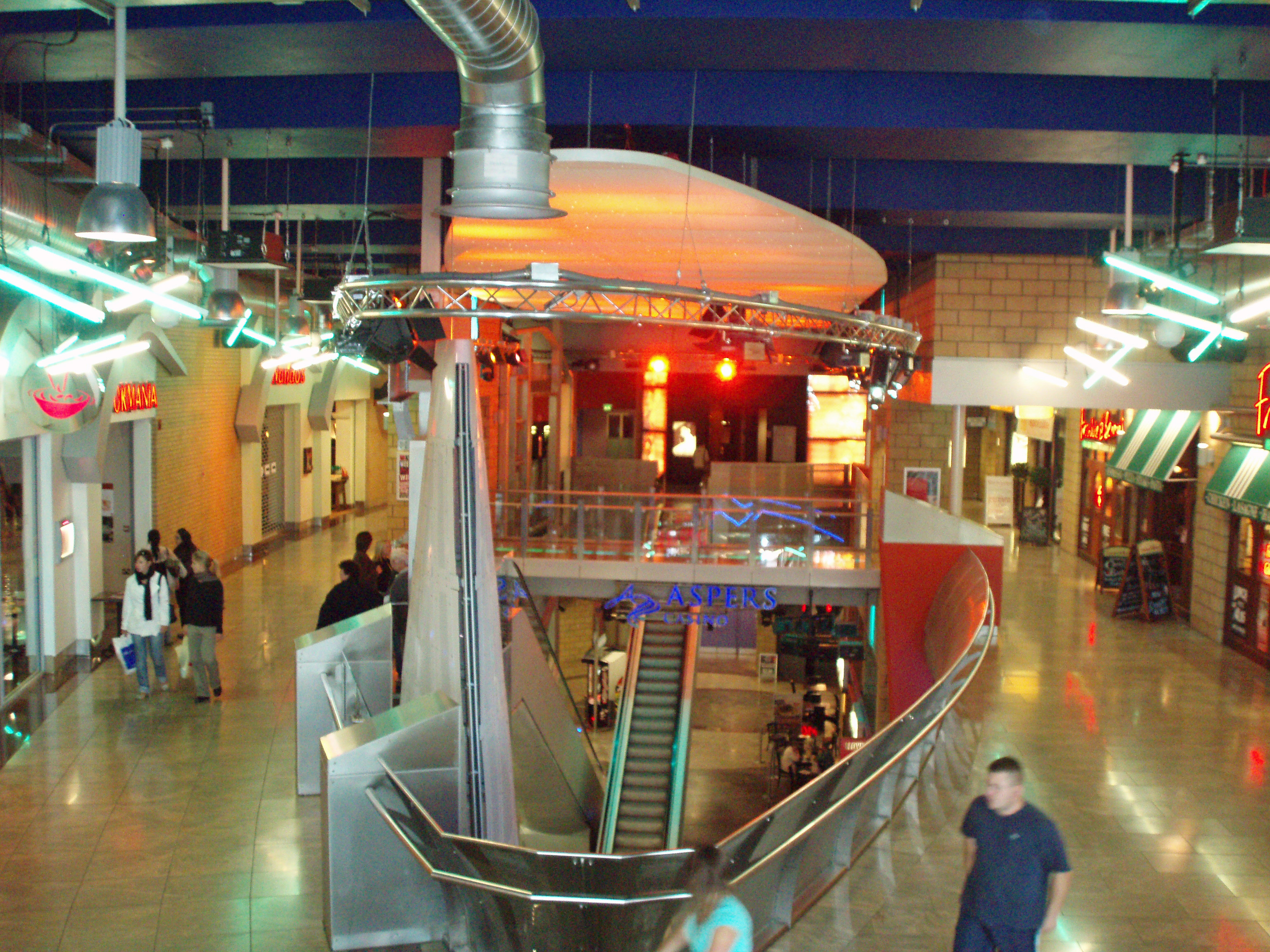 This is the inside of The Gate, Newcastle